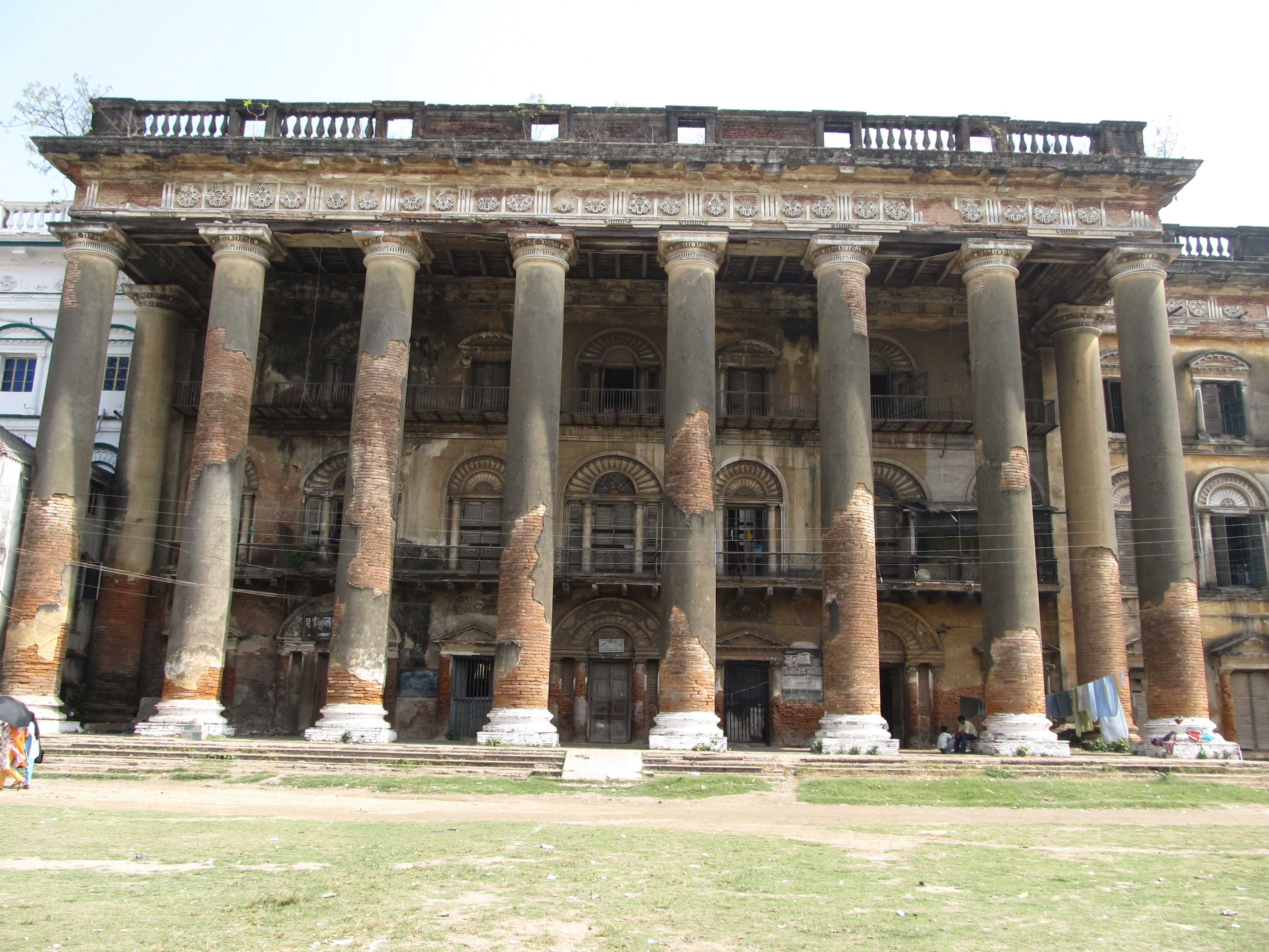 The Andul Royal Palace (bn: Andul Raj Bati, Andul Raj Bari or Andul Rajar Bari) is located in Howrah on the west bank of the river Hooghly. Raja Rajnarayan Bahadur built the palace in 1834, and it was made by the Granville Macleod Company.